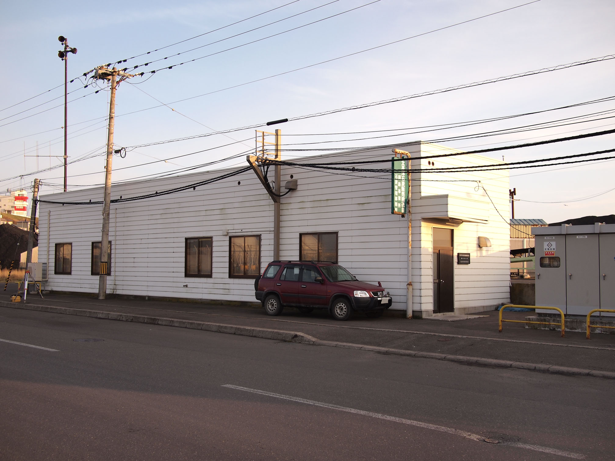 Taiheiyo Coal Services and Transportation Shirito Station, Kushiro, Hokkaido, Japan